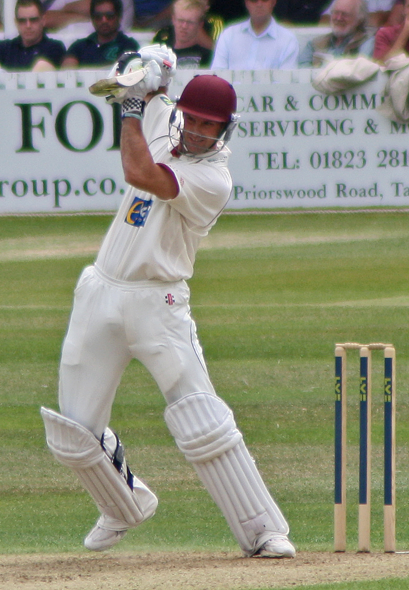 Andrew Strauss, the England Test captain, and generally a Middlesex player, opening the batting for Somerset during their tour match against India in 2011.